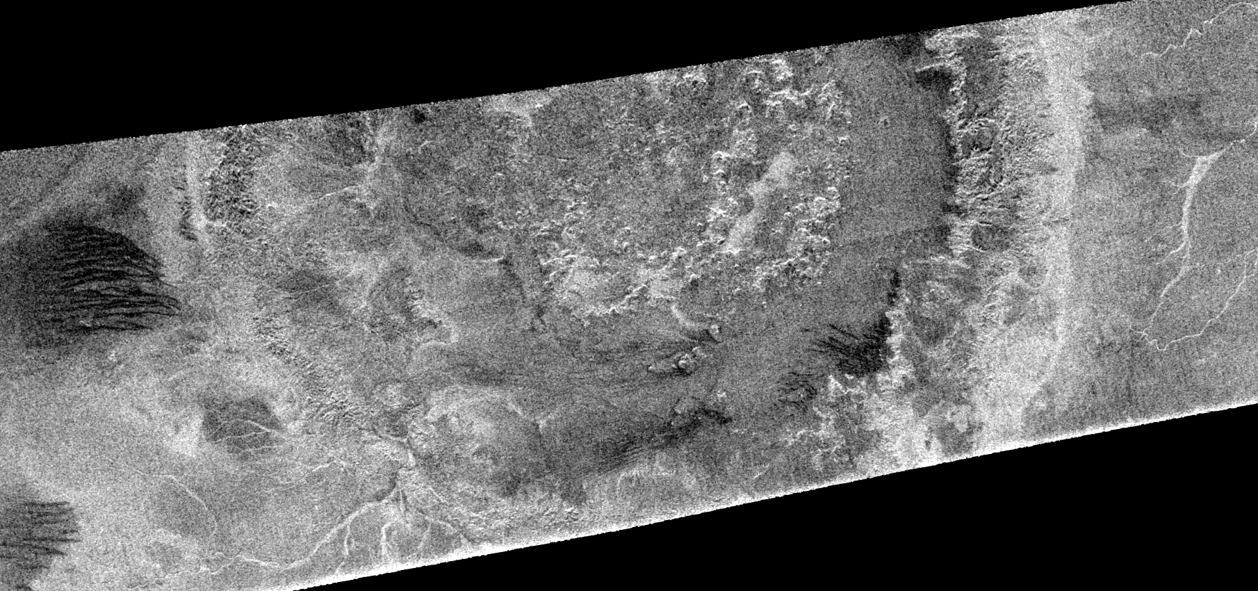 Radar image of Titan surface by Cassini. 128 pix/deg (2.85 pix/km), image width - about 635 km. Part of radar strip T3 (February 15, 2005). The big circular geature is Menrva crater, bright rivers at right - beginnings of Elivagar Flumina (look a map with names). Radar illumination is from above (perpendicular to the strip) with incidence angle of 21 deg. (see Lorenz R. D., Wood C. A., Lunine J. I., Wall S. D., Lopes R. M., Mitchell K. L., Paganelli F., Anderson Y. Z., Stofan E. R. and the Cassini RADAR Team (2007). "Titan impact craters — Cassini RADAR results and insights on target properties". Workshop on Impact Cratering II.) The image was cropped, rotated on 9.5 deg counterclockwise (to make north on the top) and it's contrast was increased.